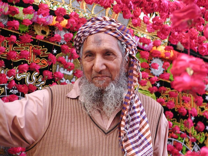 Hafiz Sabar Ali